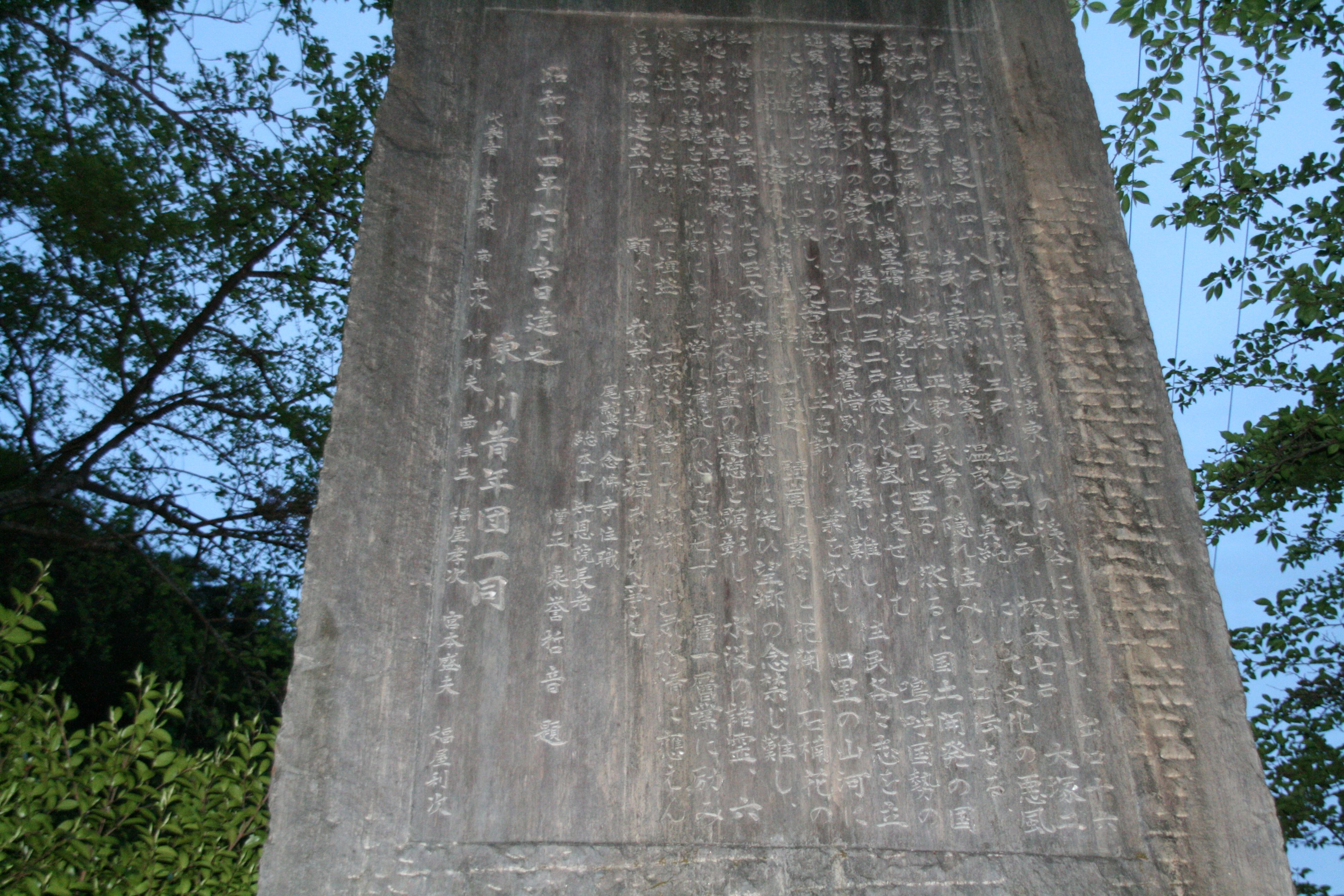 Nishihara, Kamikitayama, Yoshino District, Nara Prefecture 639-3704, Japan